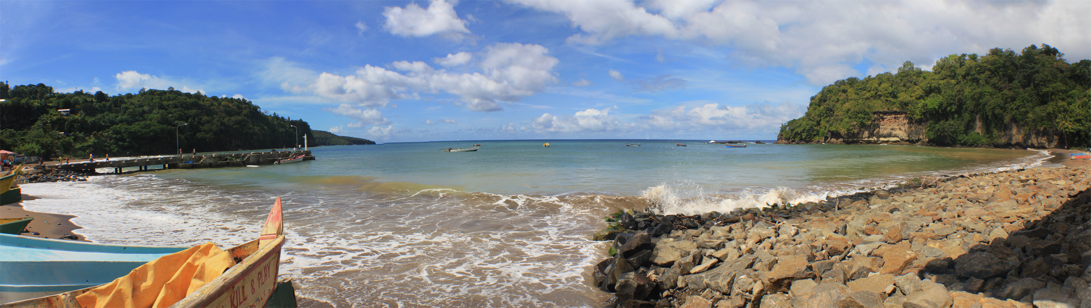 Picture of the bay taken in Anse La Raye, St Lucia...